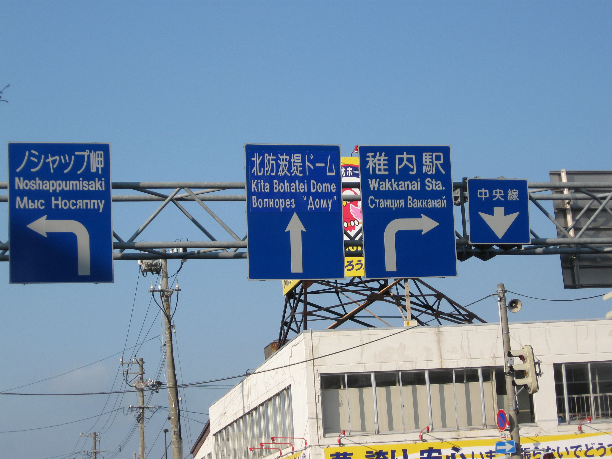 Road signs in Wakkanai, Due to the high number of Russian fishermen offloading their catch in Wakkanai, some of the roadsigns include Russian script (alongside the usual Japanese and English). Location: Wakkanai